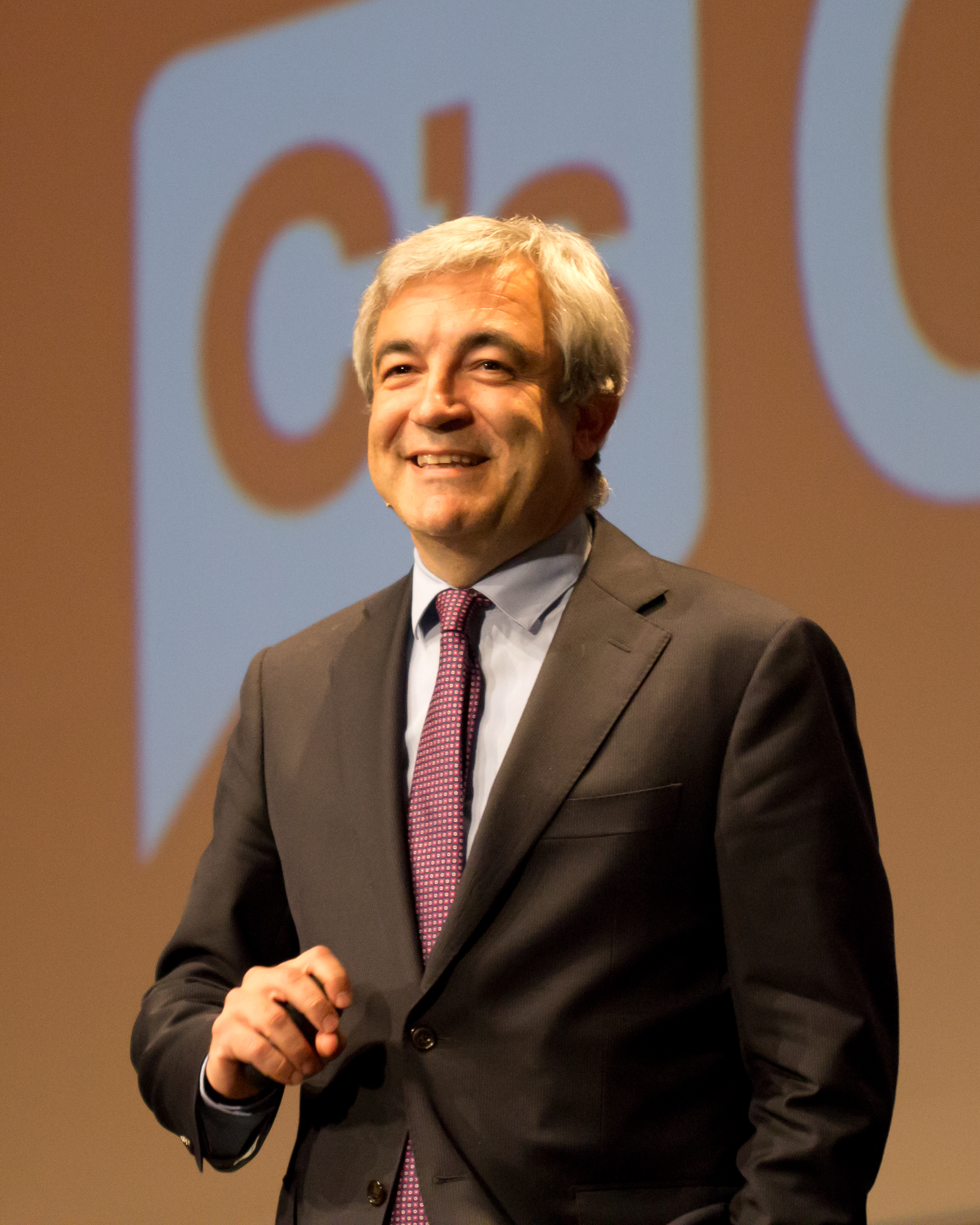 Spanish economist Luis Garicano at an event with Ciudadanos party.